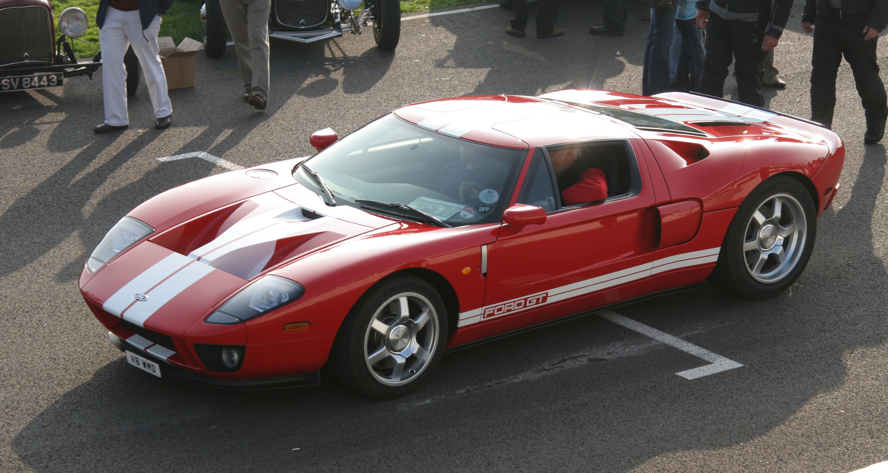 Goodwood Breakfast Club - Ford GT